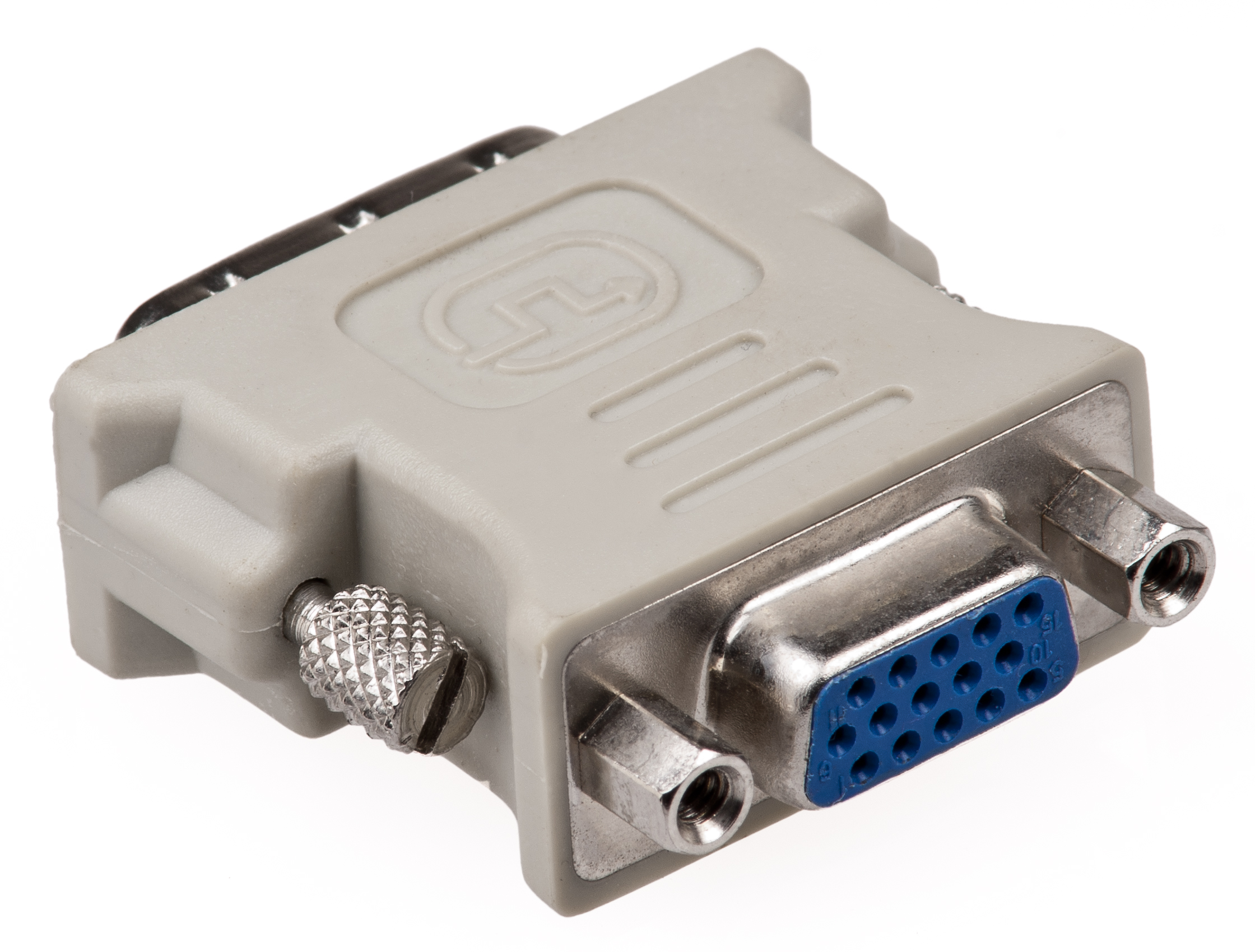 A DVI to VGA adapter for a computer or video connection.